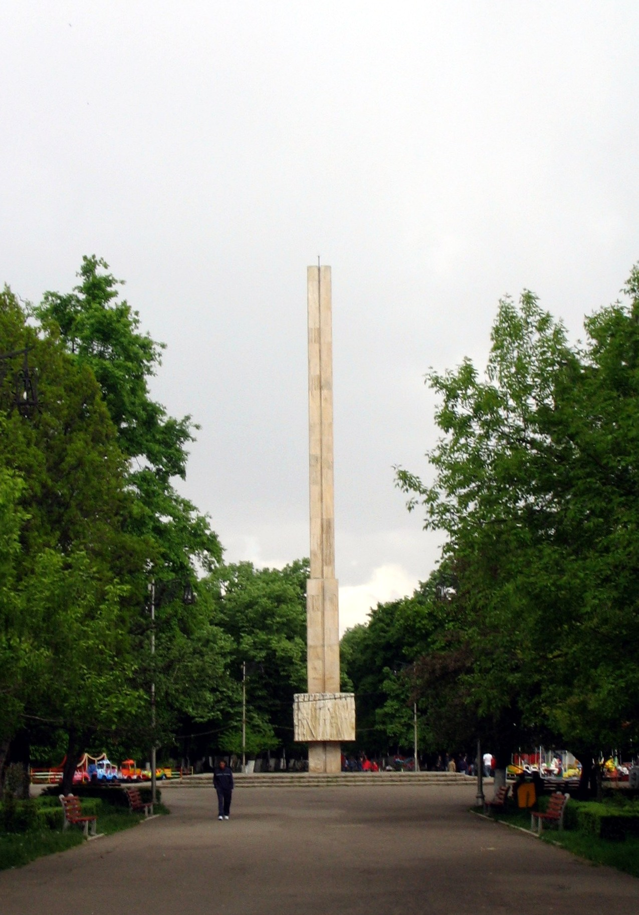 The Obelisk Buzău 1600 in the Crâng park, Buzău, România